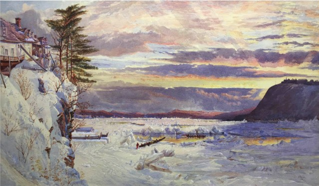 La Traversée de la glace de la Pointe de Lévy à Québec. Watercolour 13" x 21" in. (33 x 53.3 cm)